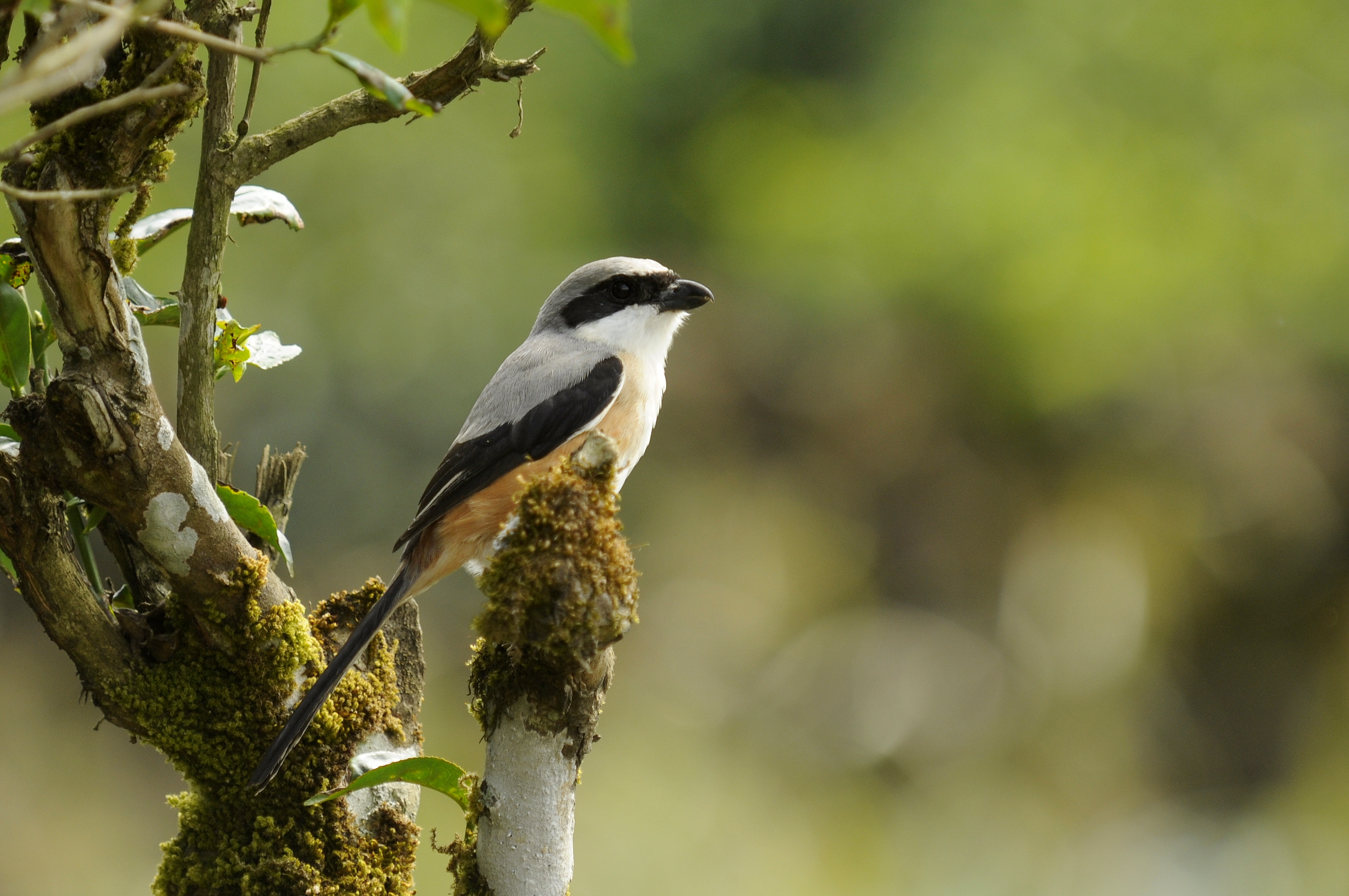 A Long-tailed Shrike (Lanius schach) in Anamalai hills, India